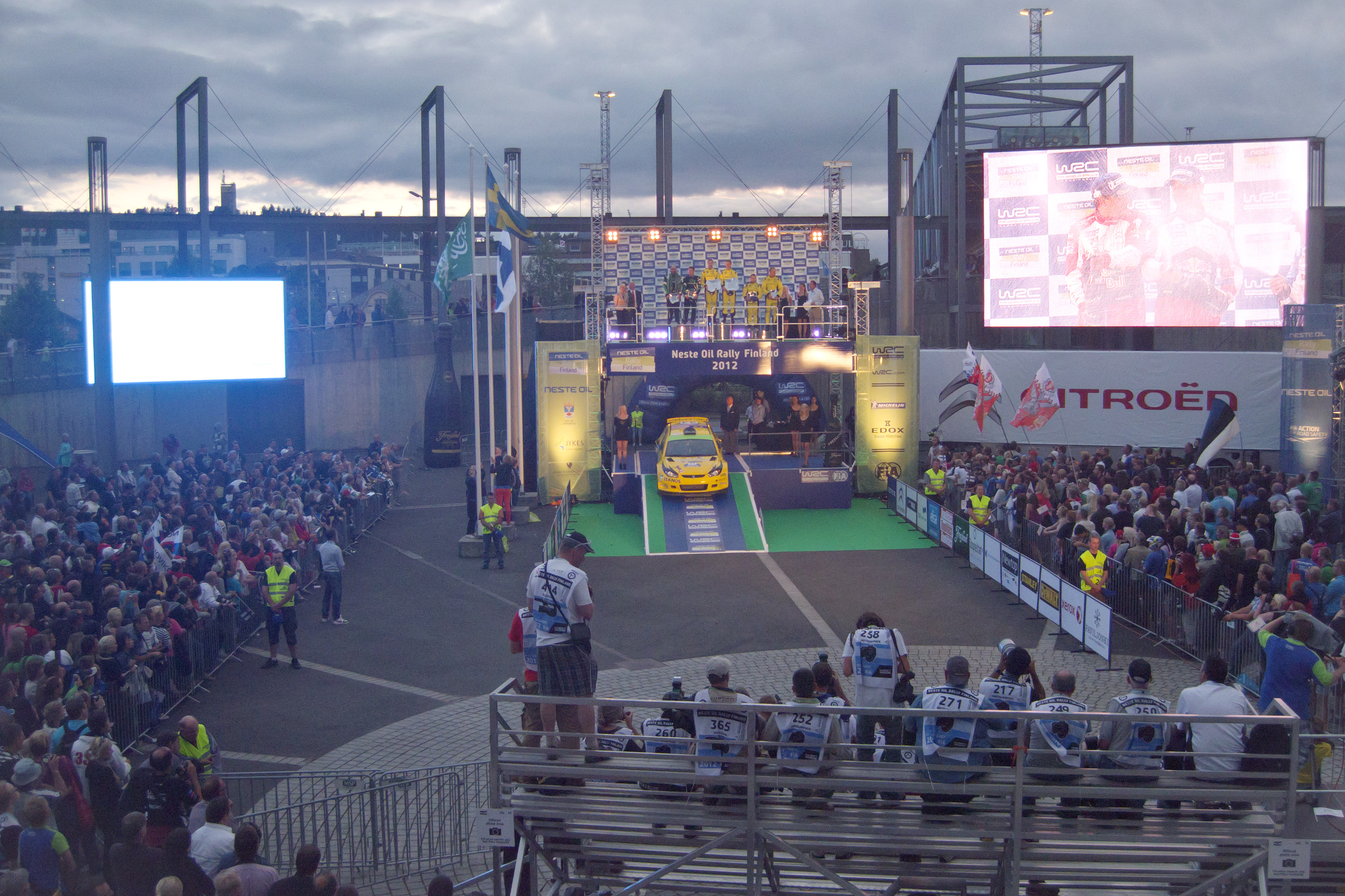 The podium and press conference of the 2012 Rally Finland.